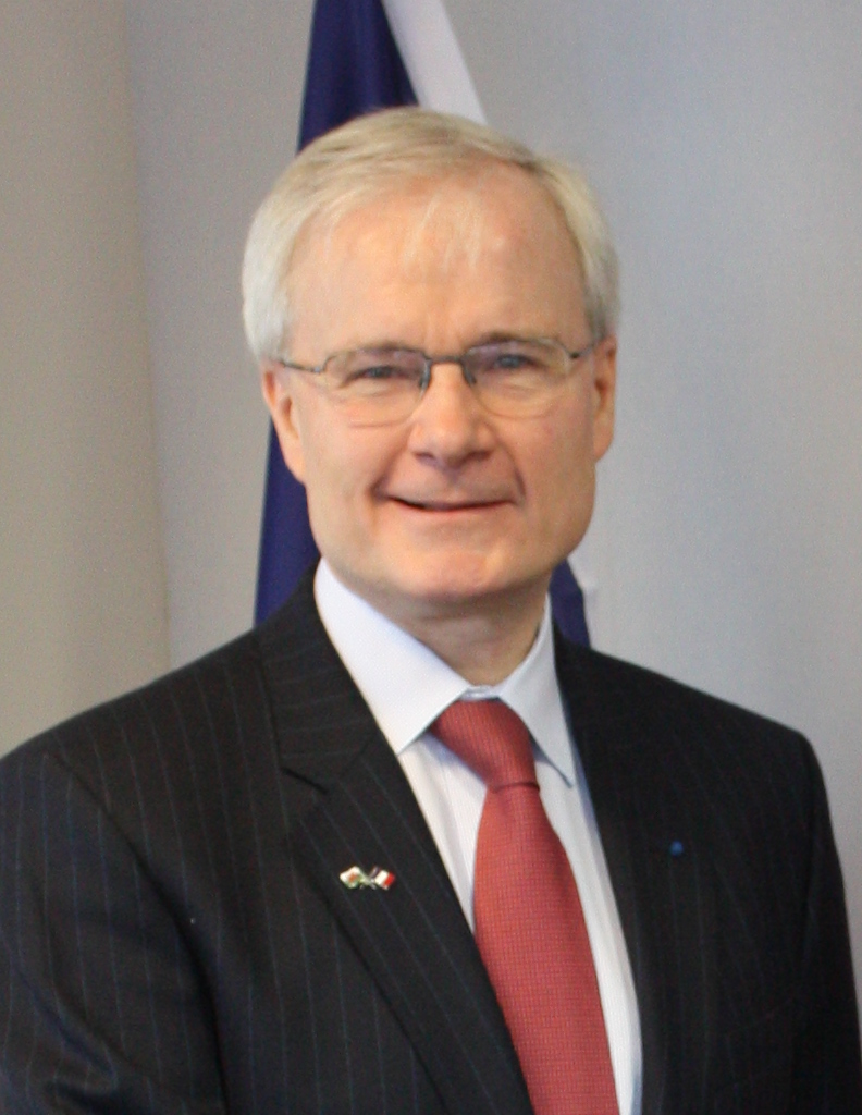 French Ambassador to the UK His Excellency Mr Bernard Emié